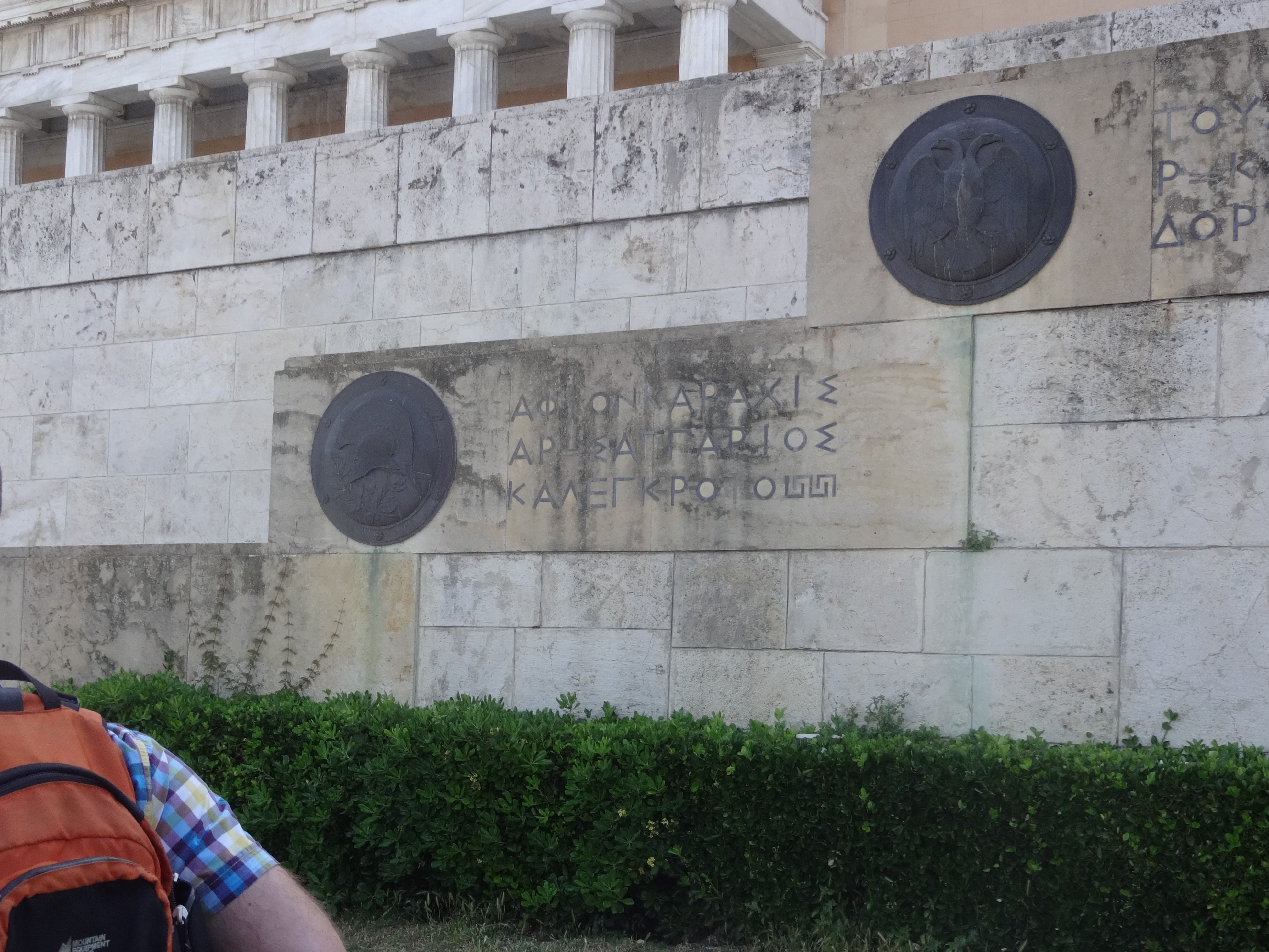 Turists at Tomb of the Unknown Soldier in Athens